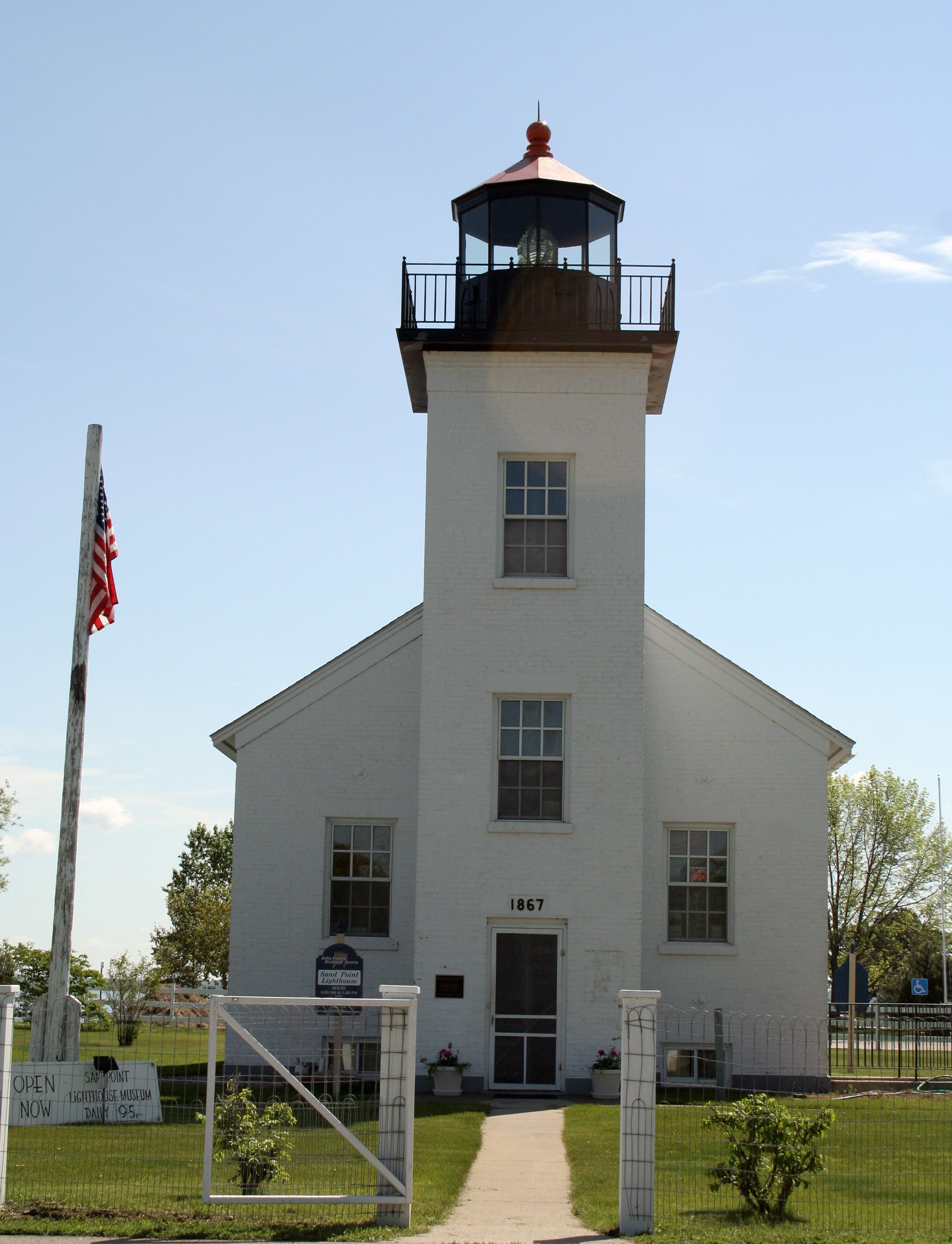 Sand Point Lighthouse, Escanaba, Michigan